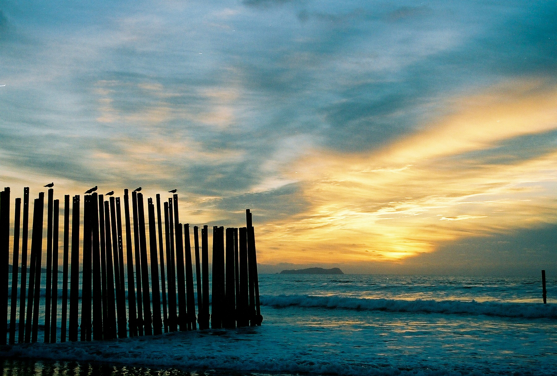 Border between Mexico and the USA - San Diego. Winter 2006.